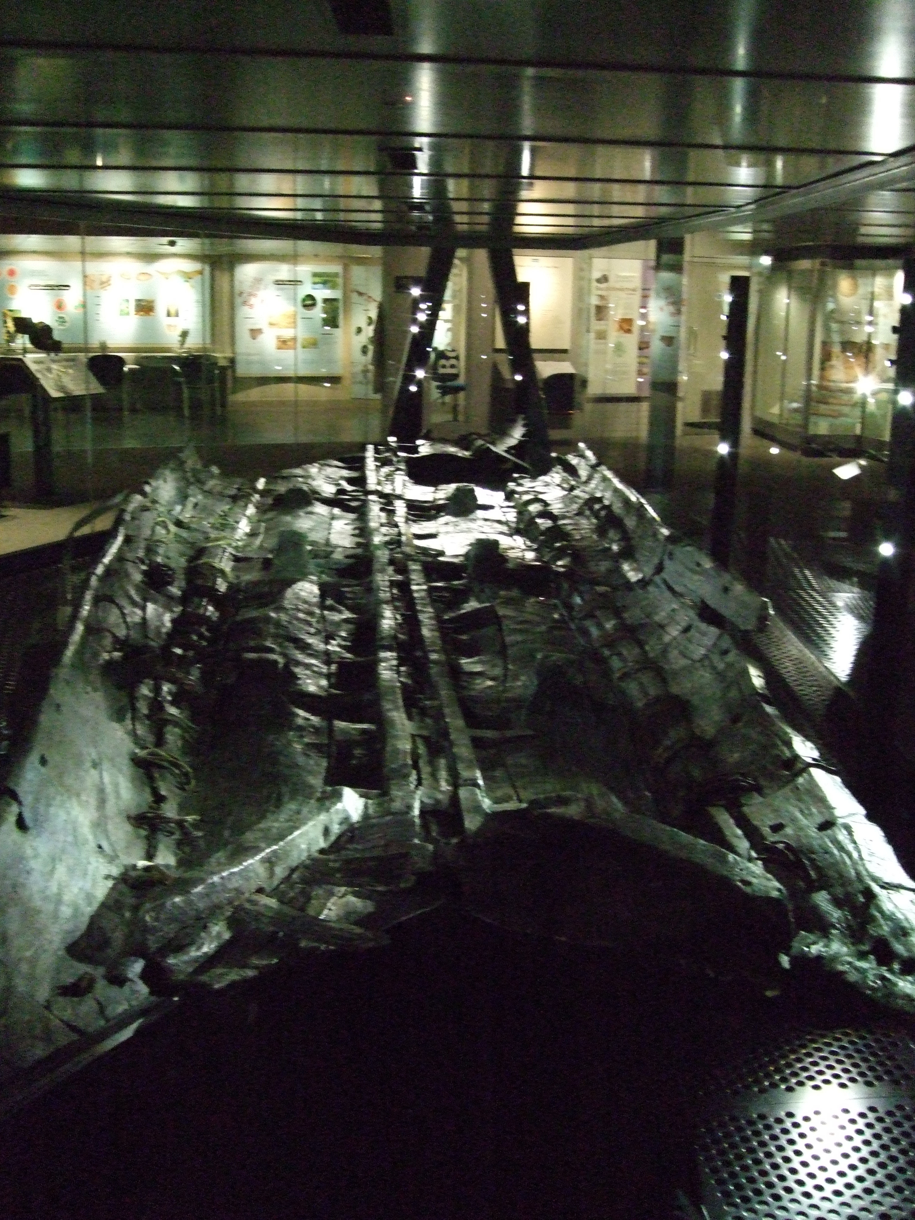 The Dover Boat is of Bronze Age date, a period when metal was first used in Britain. The boat is around 3,550 years old (from radiocarbon dating some of the boat timber). Bronze Age sites are rare, but include one of the world's most spectacular monuments - Stonehenge.